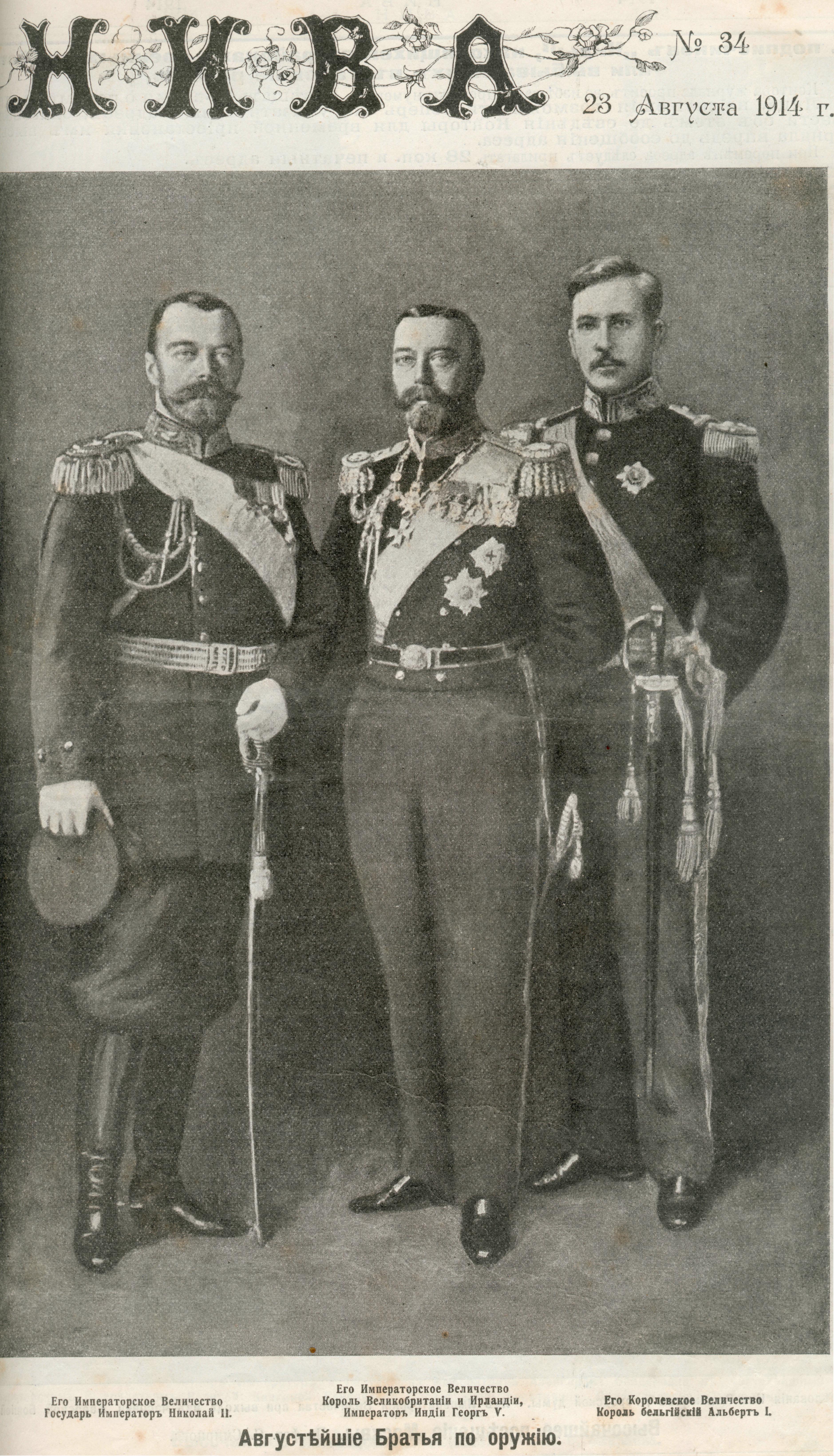 Niva magazine cover from August 23, 1914, showing Tsar Nicholas II (left), King George V of the United Kingdom (center) and King Albert I of Belgium (right)